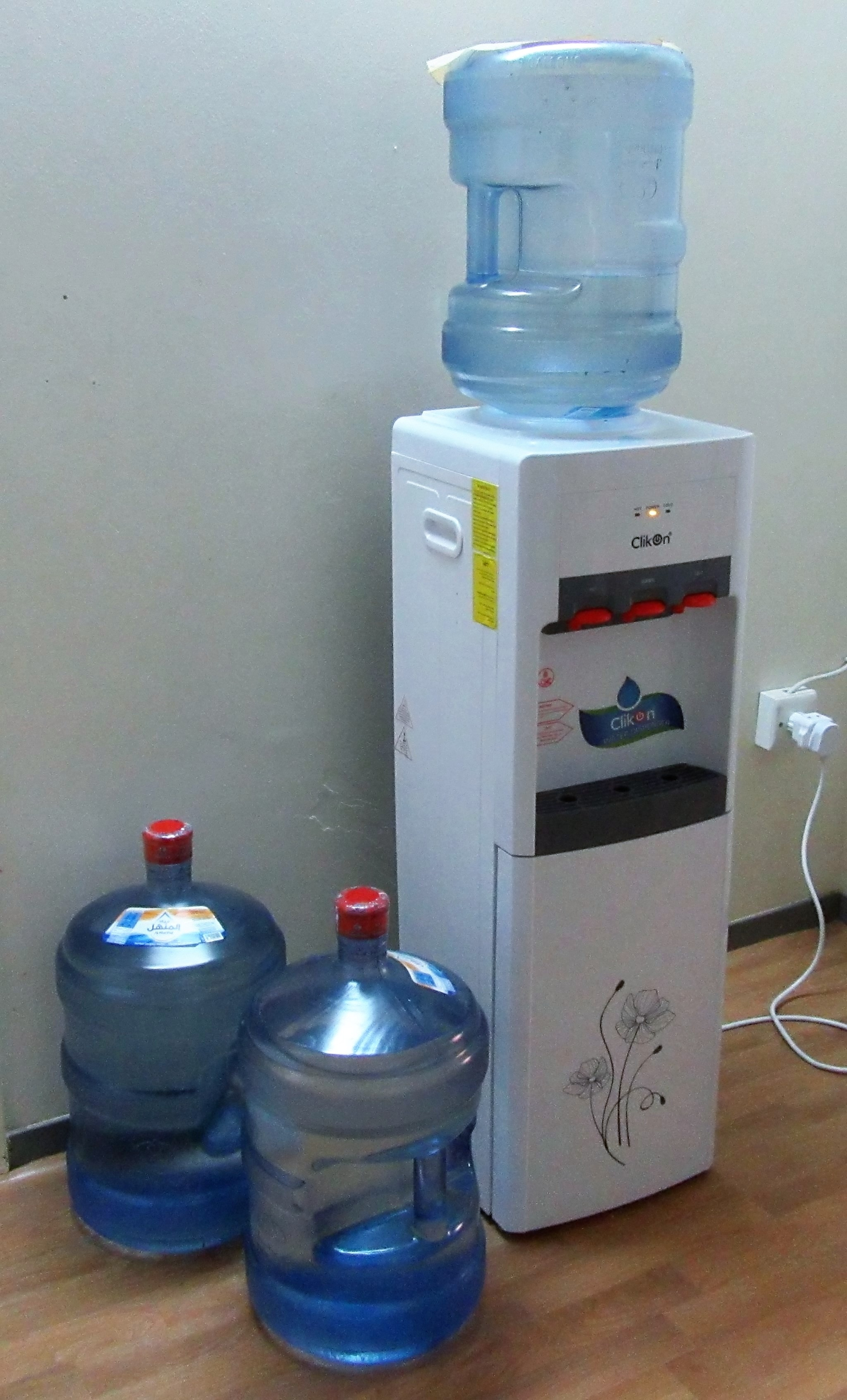 A Clickon water dispenser with a cabinet. This features Cold, Normal and Hot outlets. 2 additional 6 gallon water bottles are included